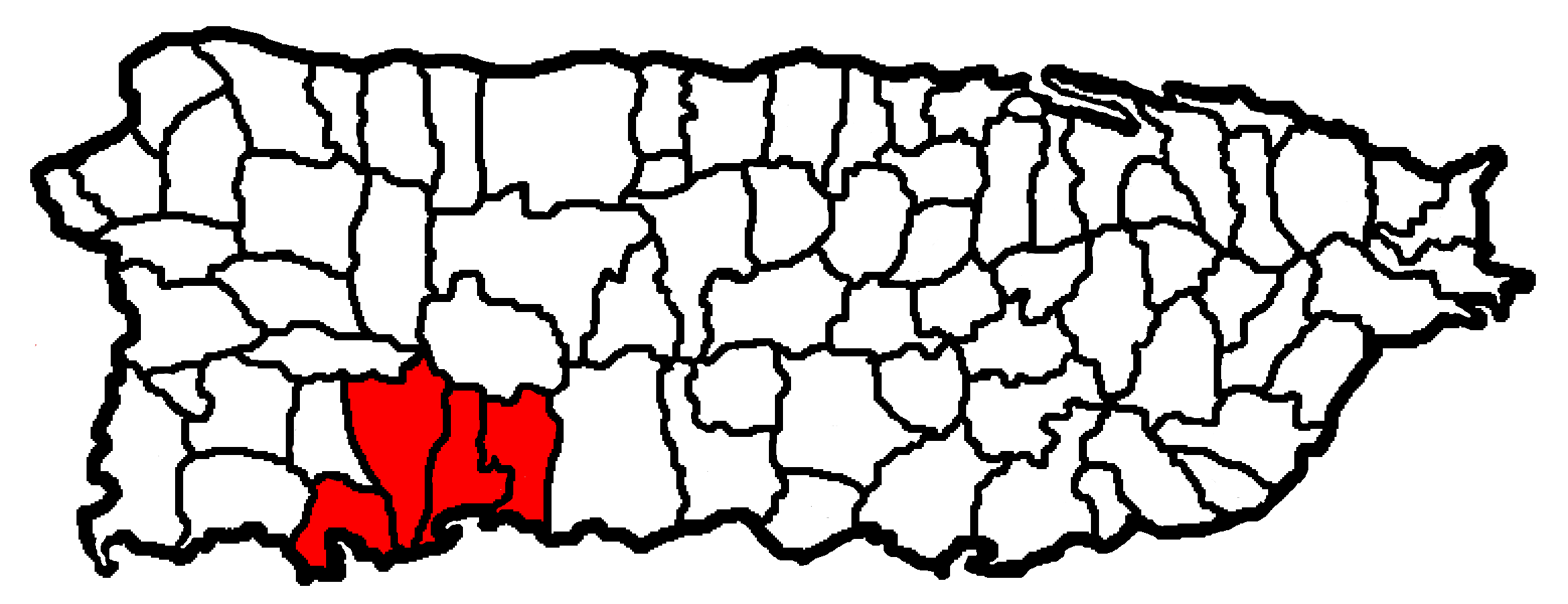 Map of Puerto Rico highlighting the Yauco Metropolitan Statistical Area. Created with the GIMP. Adapted from Image:Map_of_the_78_municipalities_of_Puerto_Rico.png by Alessandro Cai (OliverZena).